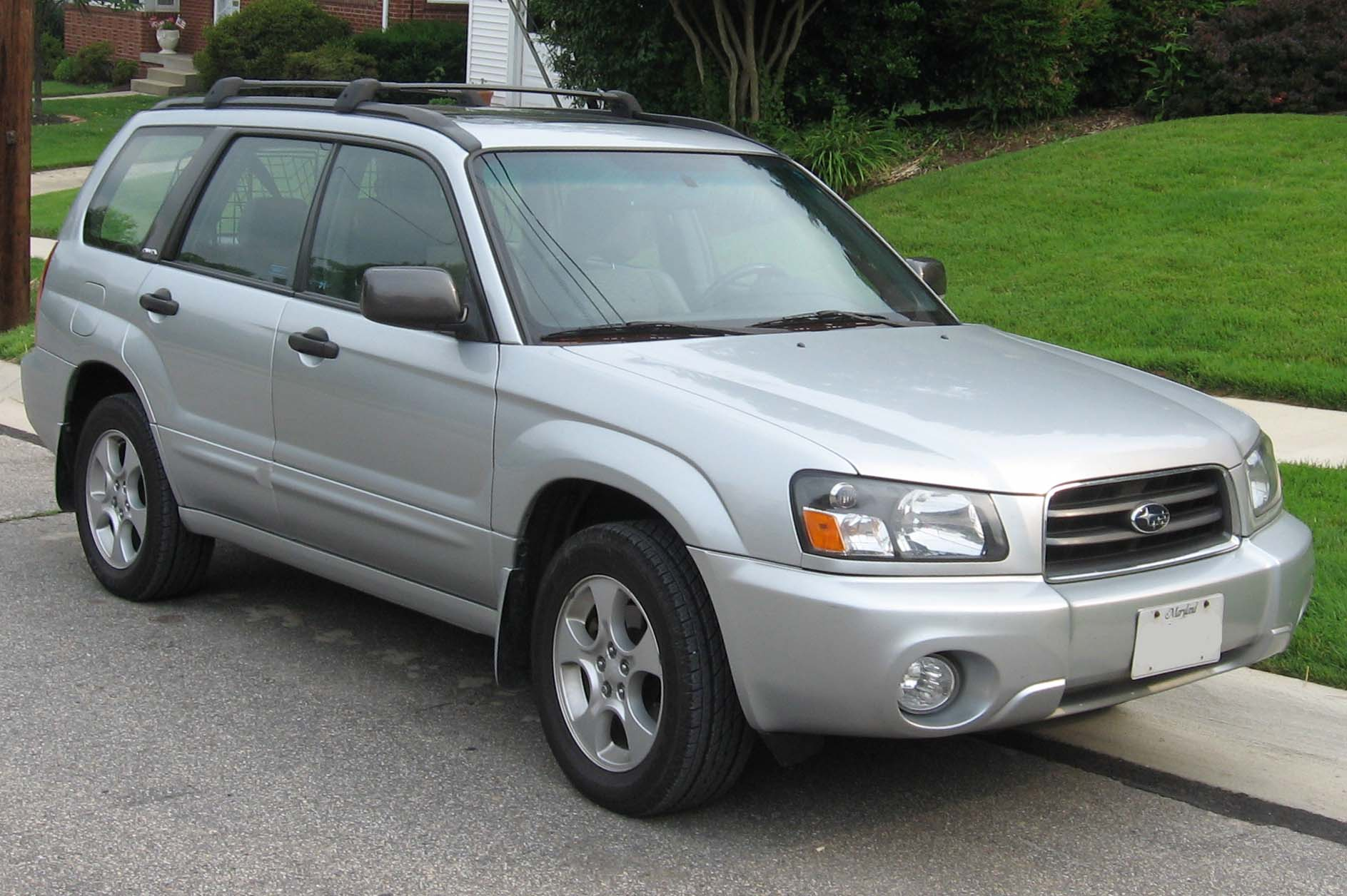 2003-2005 Subaru Forester photographed in USA.